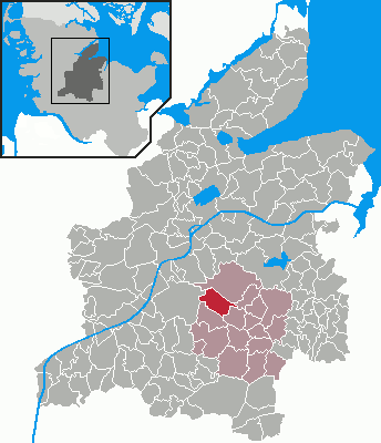 Locator maps of municipalities in Schleswig-Holstein - District Rendsburg-Eckernförde